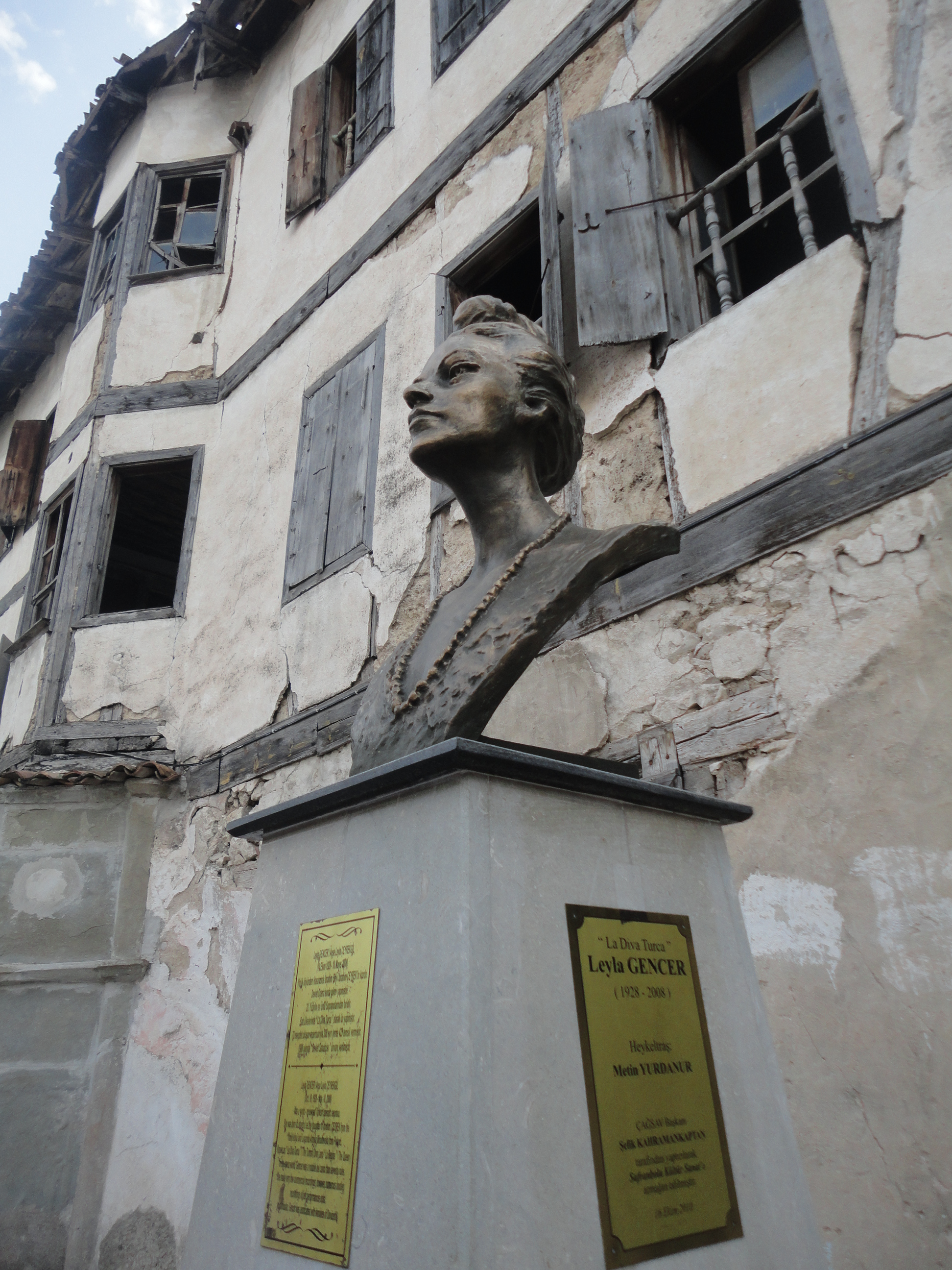 Bust of Leyla Gencer in her father's village Yörükköy, Safranbolu, Turkey